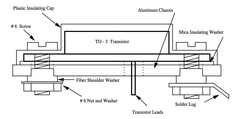 Typical TO-3 mounting profile